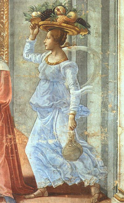 Detail from the fresco the birth of John the Baptist by Domenico Ghirlandaio